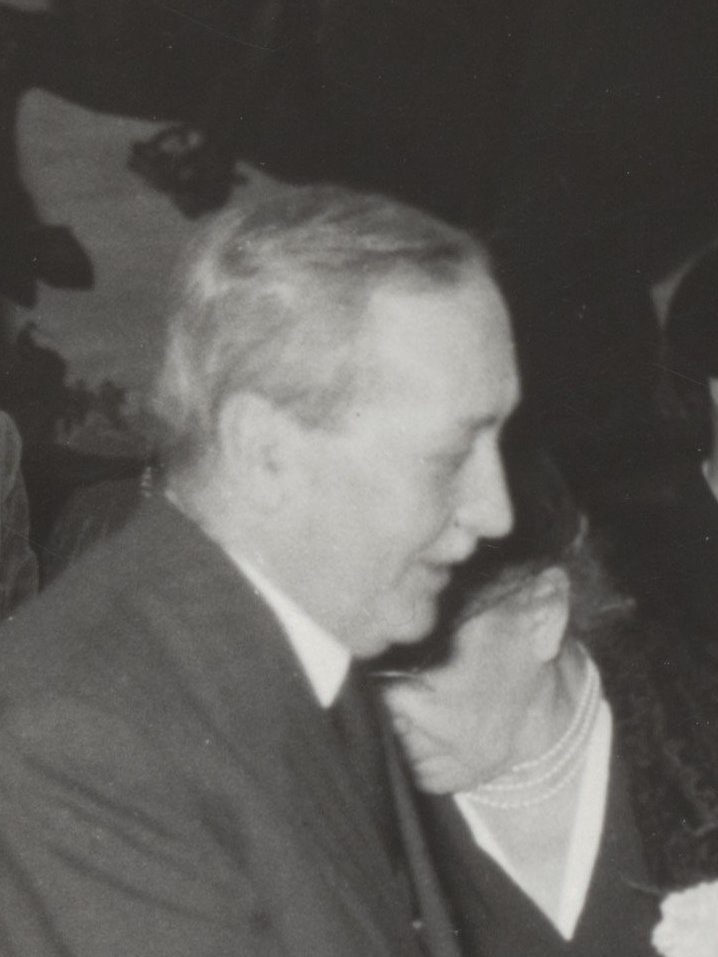 Willem Elsschot (1951)